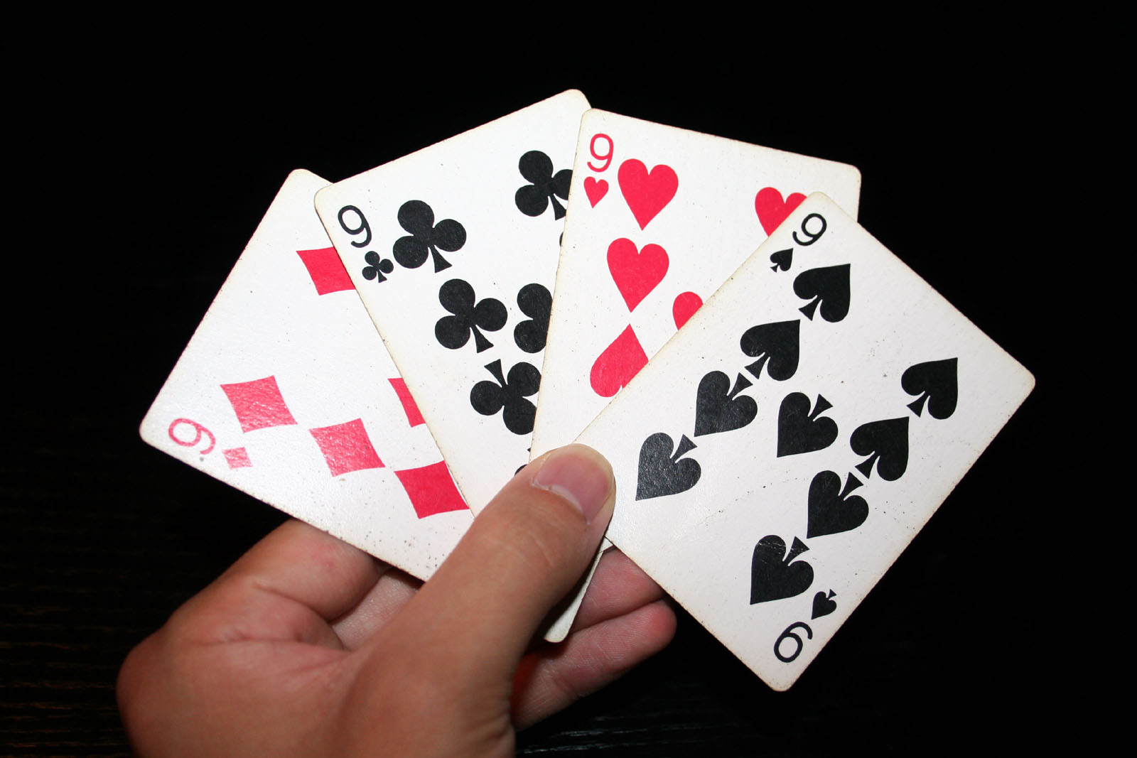 A hand holding the four 9's in a standard deck of cards: Diamonds, Clubs, Hearts, Spades.